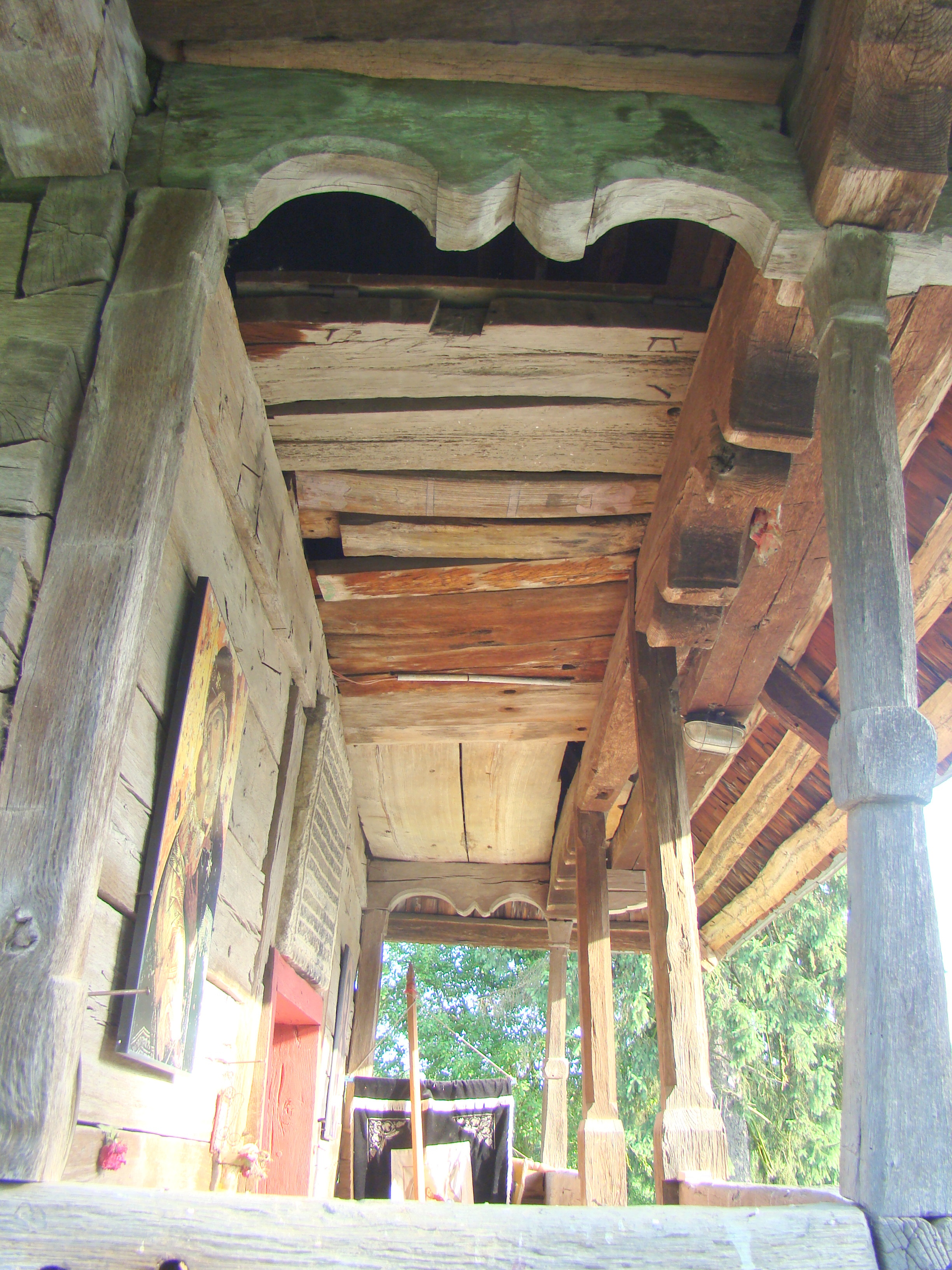 Wooden church in Roșia de Amaradia, Gorj county, Romania